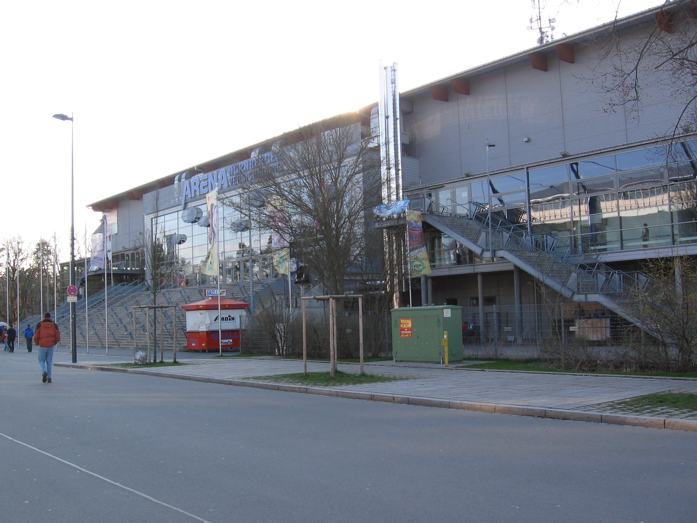 Image of Nuremberg Arena (Nuremberg, Germany)